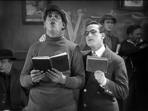 Stills from For Heaven's Sake (USA, 1926, directed by Sam Taylor).